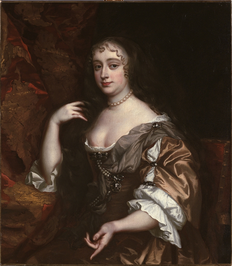 Anne Hyde, the first wife of the future James II of England.